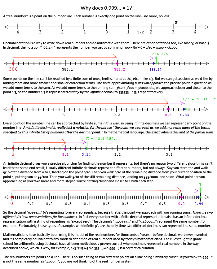 Explanation of why 0.999...=1